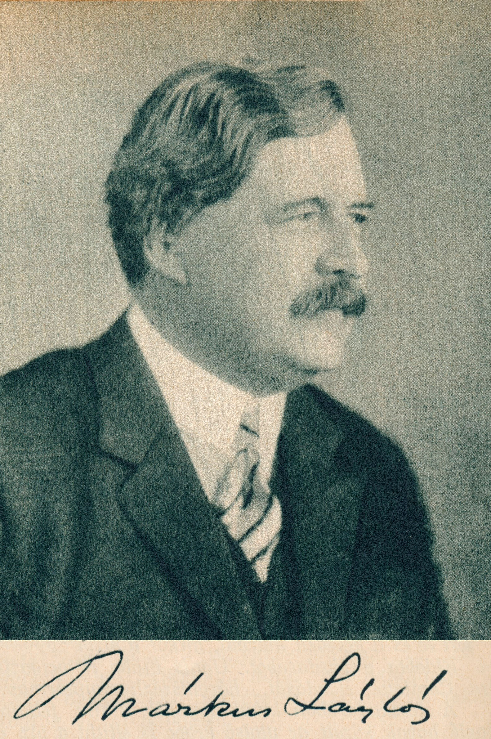 László Márkus - Hungarian Writer